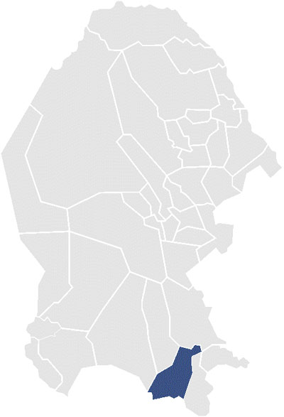 Map of the Seventh Federal Electoral District of the State of Coahuila, México.